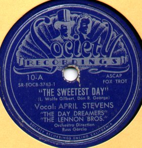 Society Recordings label